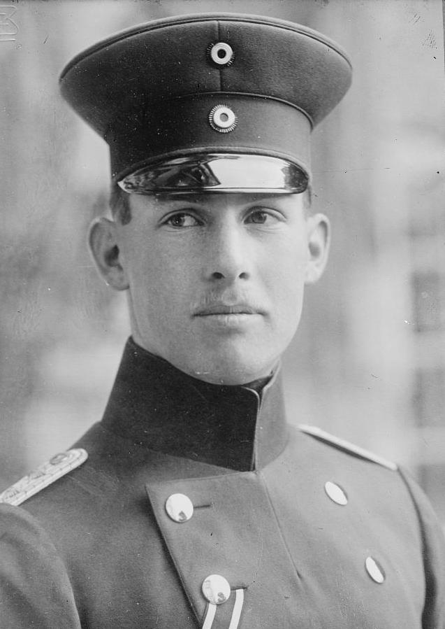 Crown Prince George of Greece in German uniform, ca. 1914